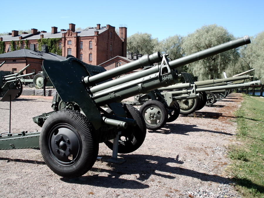 Soviet 76.2 mm F-22 (USV) M1939 gun, displayed in Hämeenlinna Artillery Museum. This gun was manufactured in 1941 in Stalingrad. Photo taken on June 18, 2006. Source: Photo by me, User:Balcer.